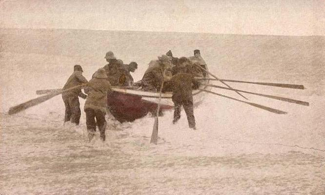 Launching the lifeboat, Plum Island, Newburyport, MA; from a c. 1910 postcard.